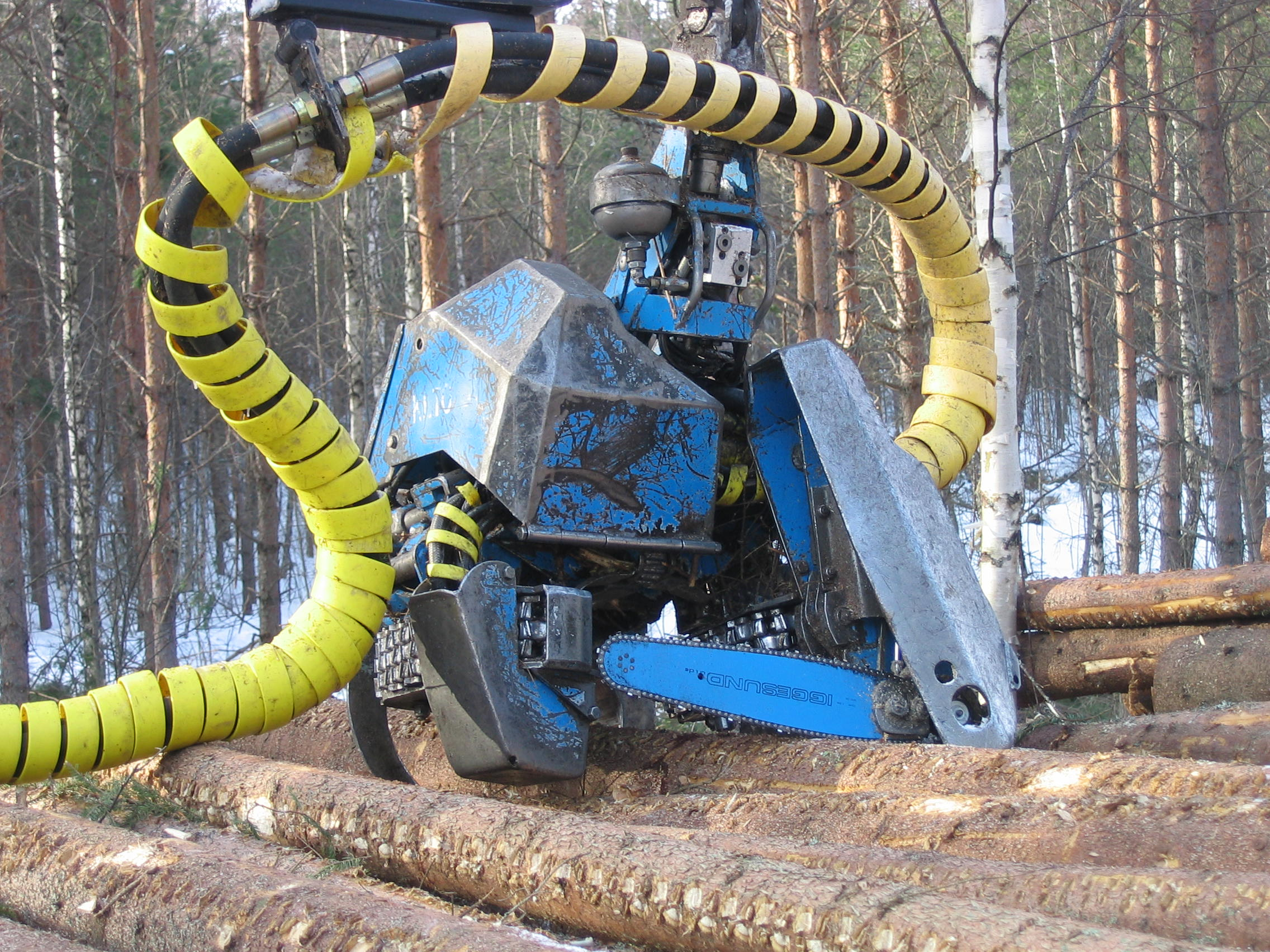 Harvester cutter used in a Finnish forest cutting machine (Valmet). – The boom of a cut-to-length harvester with attached chainsaw cutting Pinus sylvestris in Finland.